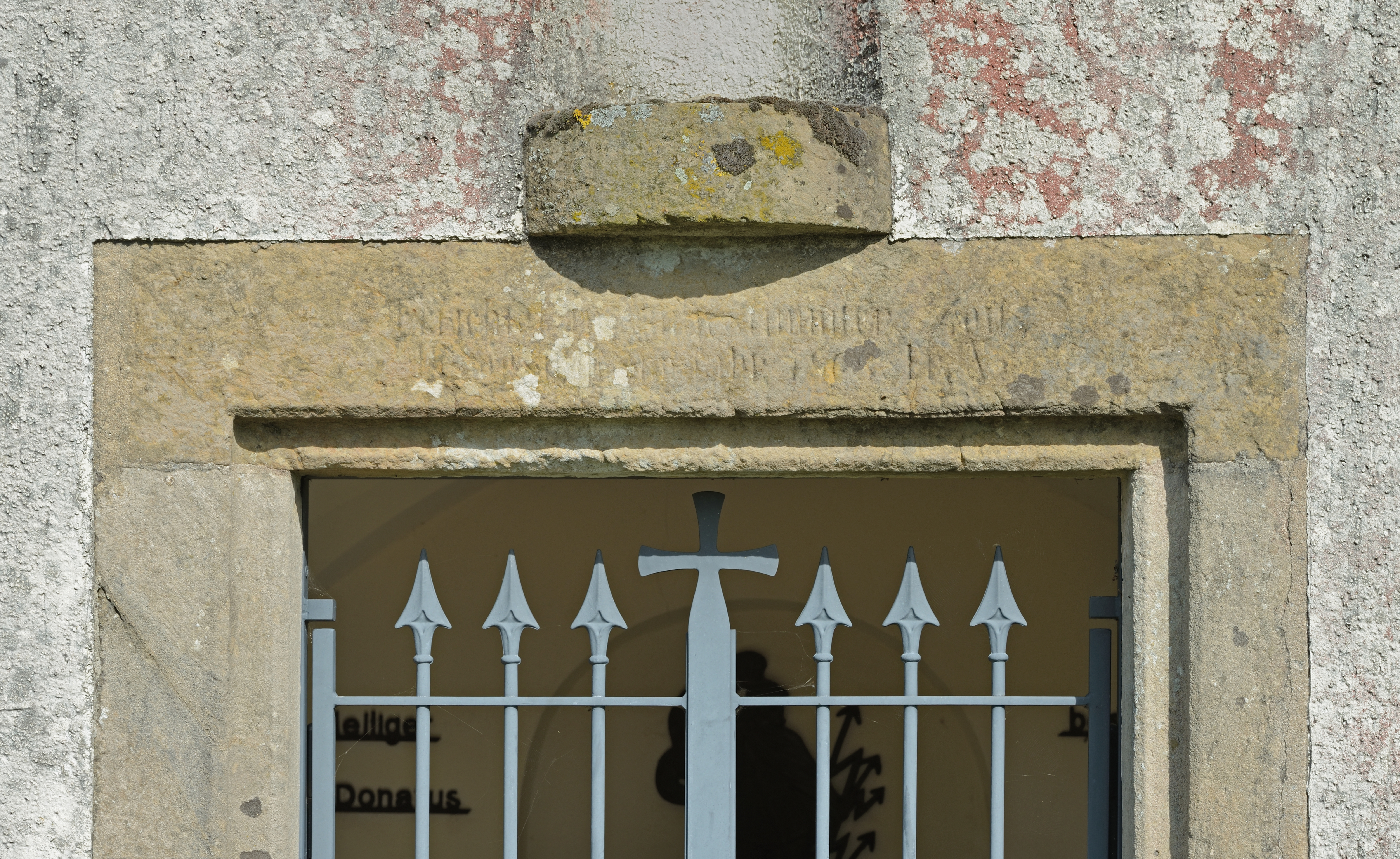 Beidweiler, Luxembourg, Saint Donatus chapel: door engraving. Translation: Built in an unknown time... Renovated (or enlarged) in the year of the Lord 1867 (or 1869).